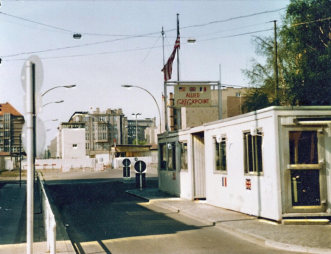 Checkpoint Charlie, Berlin, American Sector, 1982